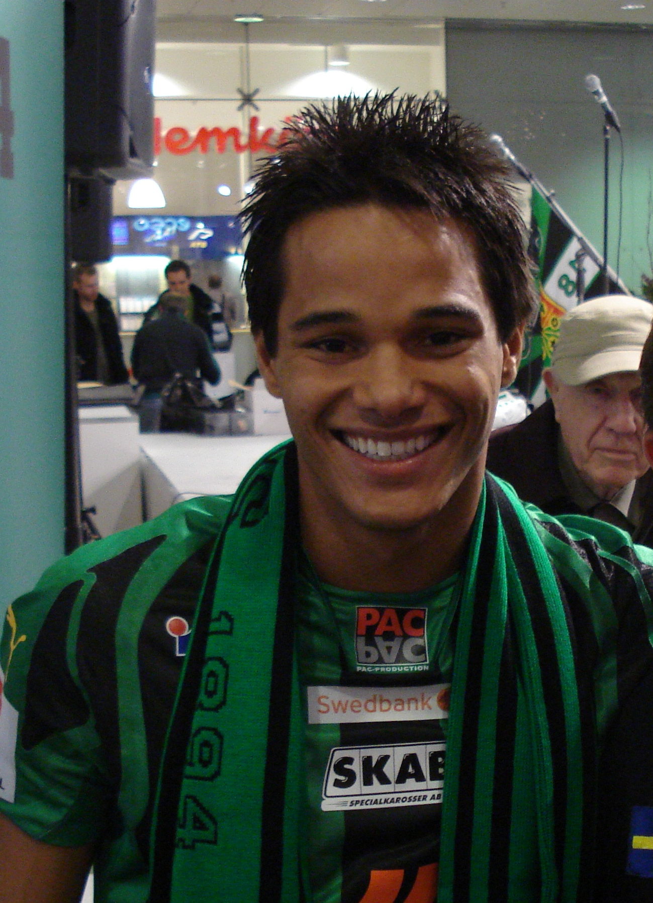 The Brazilian footballplayer Daniel Morais Reis.